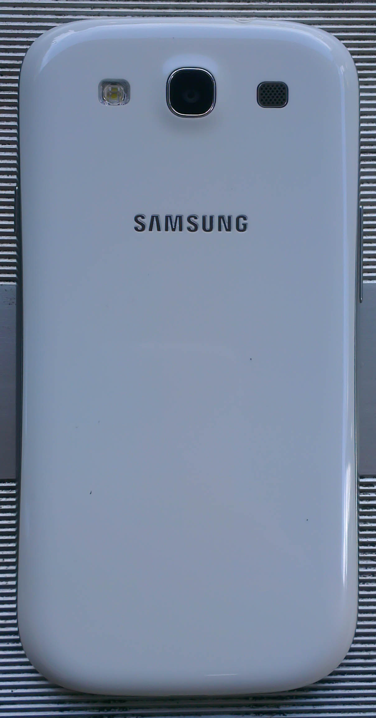 Image of the back of a Samsung Galaxy S III in white